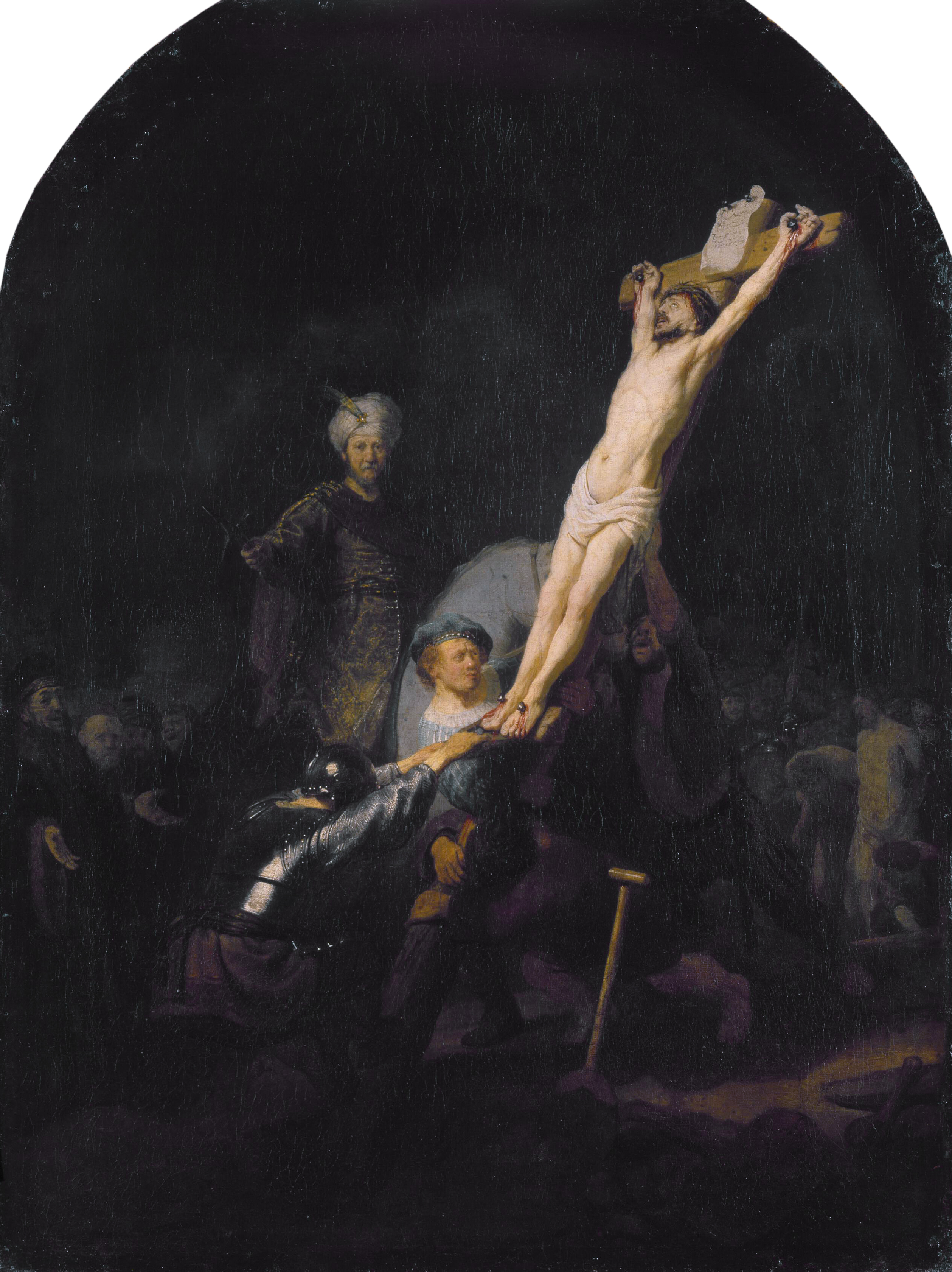 Raising of the cross to which Christ is nailed already. Second painting of Rembrandt's Passion Cycle for Frederick Henry, Prince of Orange